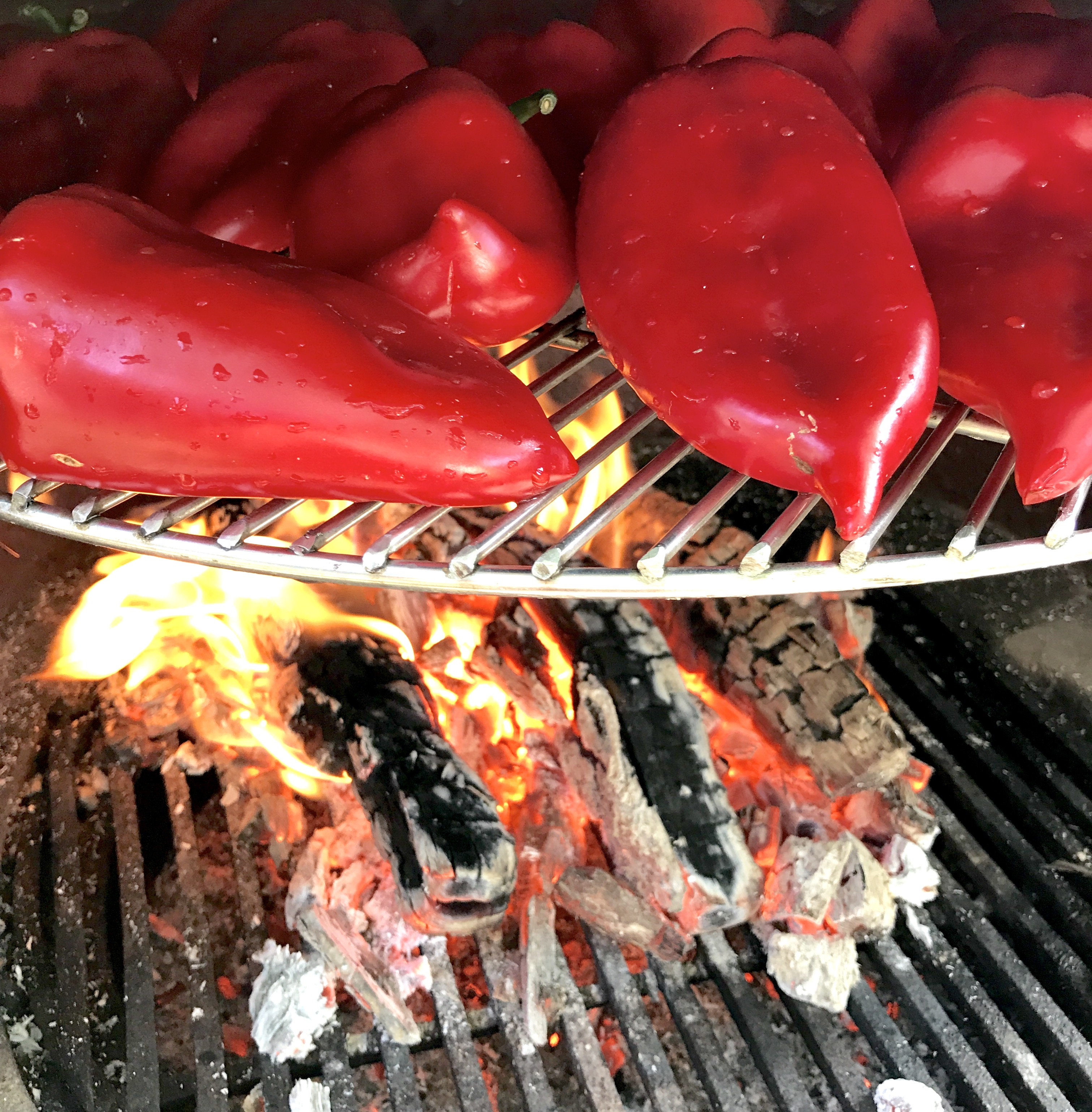 Red Peppers on firewood grill due to the preparation of Ajvar.